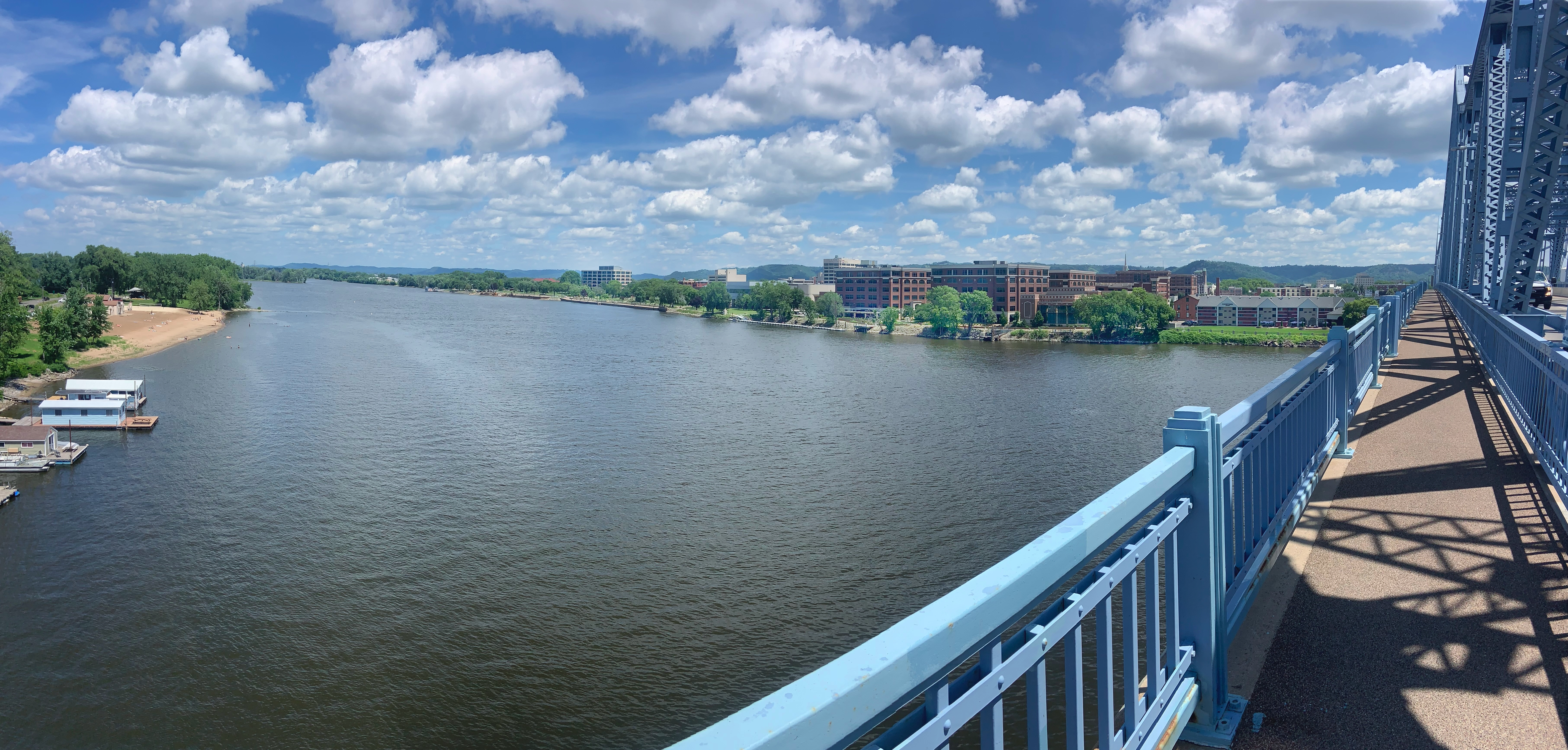 La Crosse down town river front